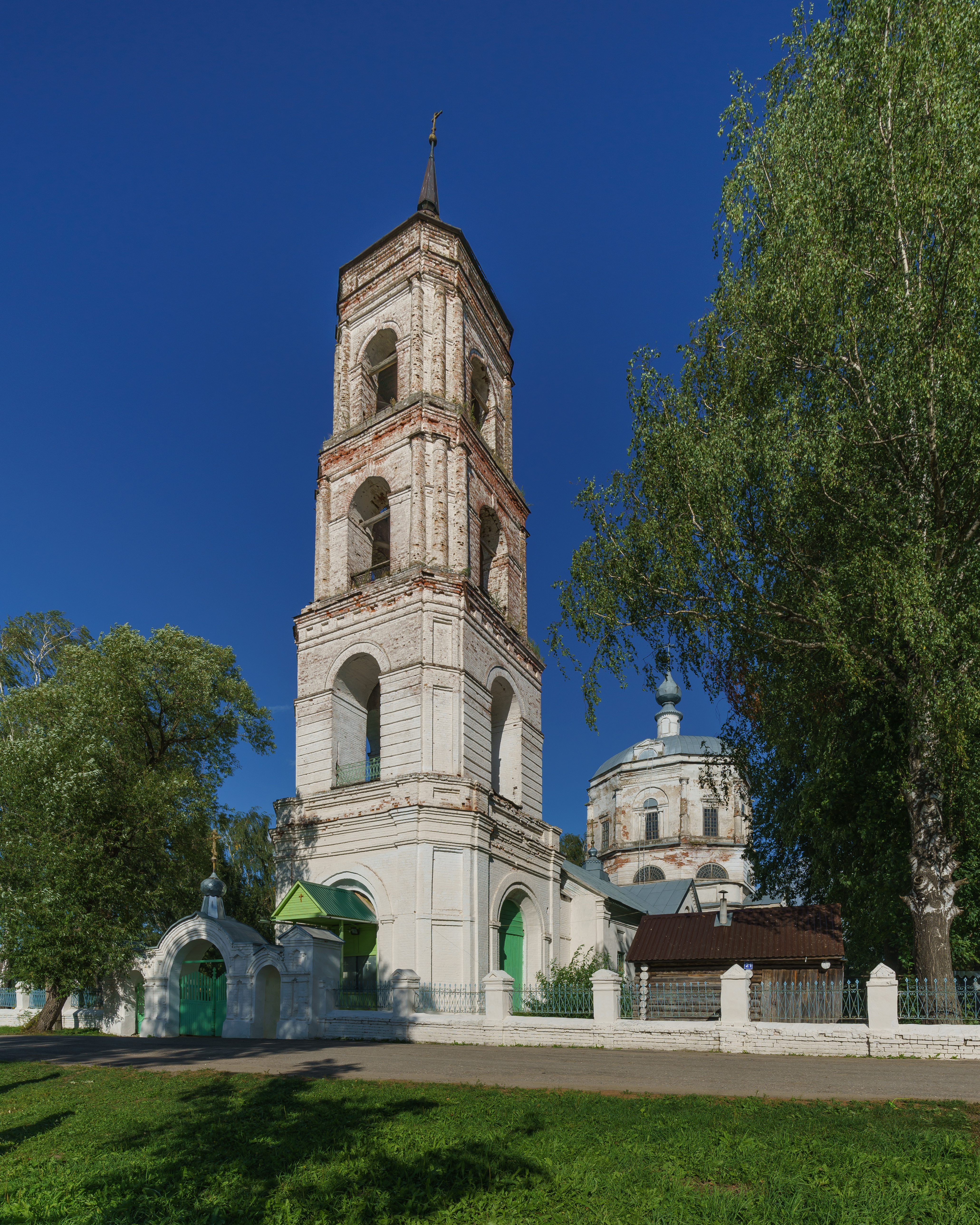 Epiphany Church in Khudynskoye, Ivanovo Oblast, Russia.